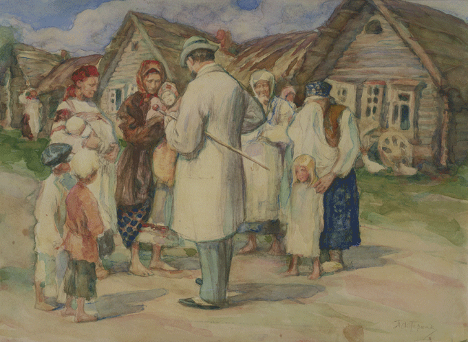 Pre-1910 illustration by Leonid Pasternak of Leo Tolstoy's wikisource:The Awakening: The Resurrection